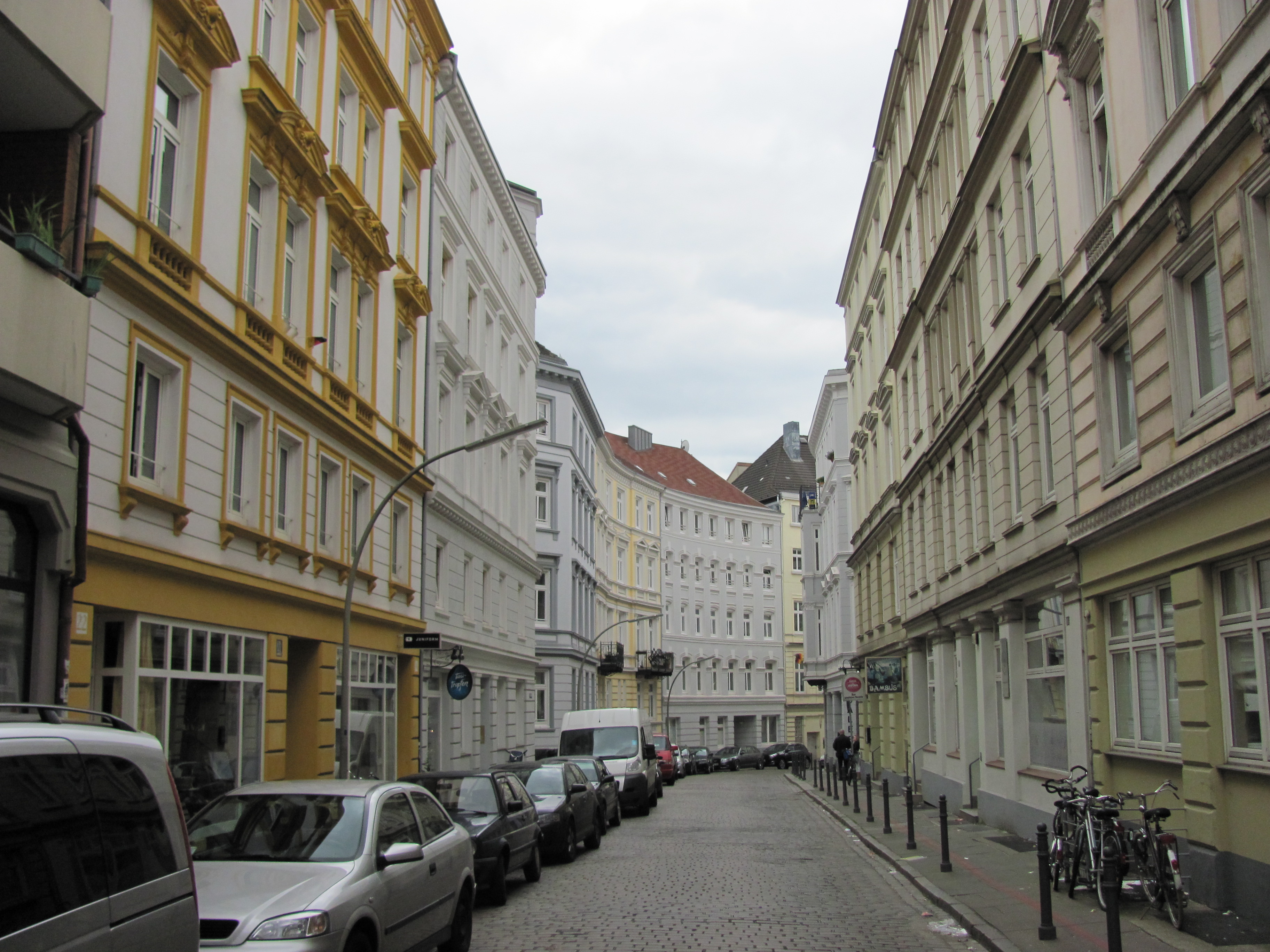 Brüderstraße in Hamburg-Neustadt, seen from Thielbek